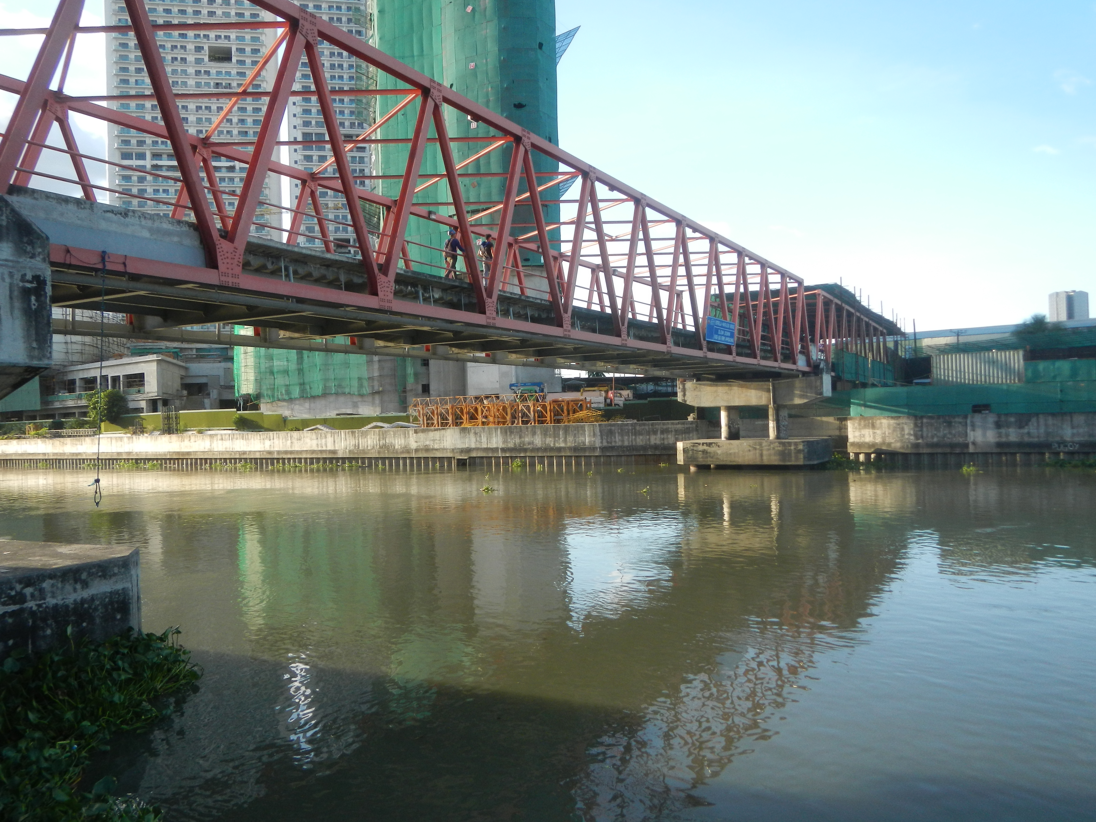 Estrella Street Estrella–Pantaleon Bridge Rockwell Bridge two-lane box truss bridge in J.P. Rizal Avenue List of barangays of Metro Manila, Legislative districts of Makati, Barangay Guadalupe Viejo, beside Poblacion, Makati, Makati City, Barangay Guadalupe Viejo Makati City Linear Park cum Rivetment Wall, (Note: Judge Florentino Floro, the owner, to repeat, Donor Florentino Floro of all these photos hereby donate gratuitously, freely and unconditionally all these photos to and for Wikimedia Commons, exclusively, for public use of the public domain, and again without any condition whatsoever).